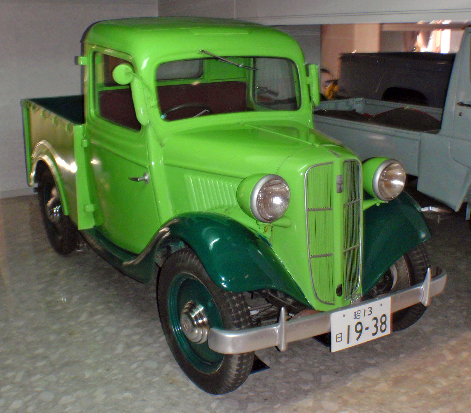 1938 Datsun Model 17 truck at the Motorcar Museum of Japan